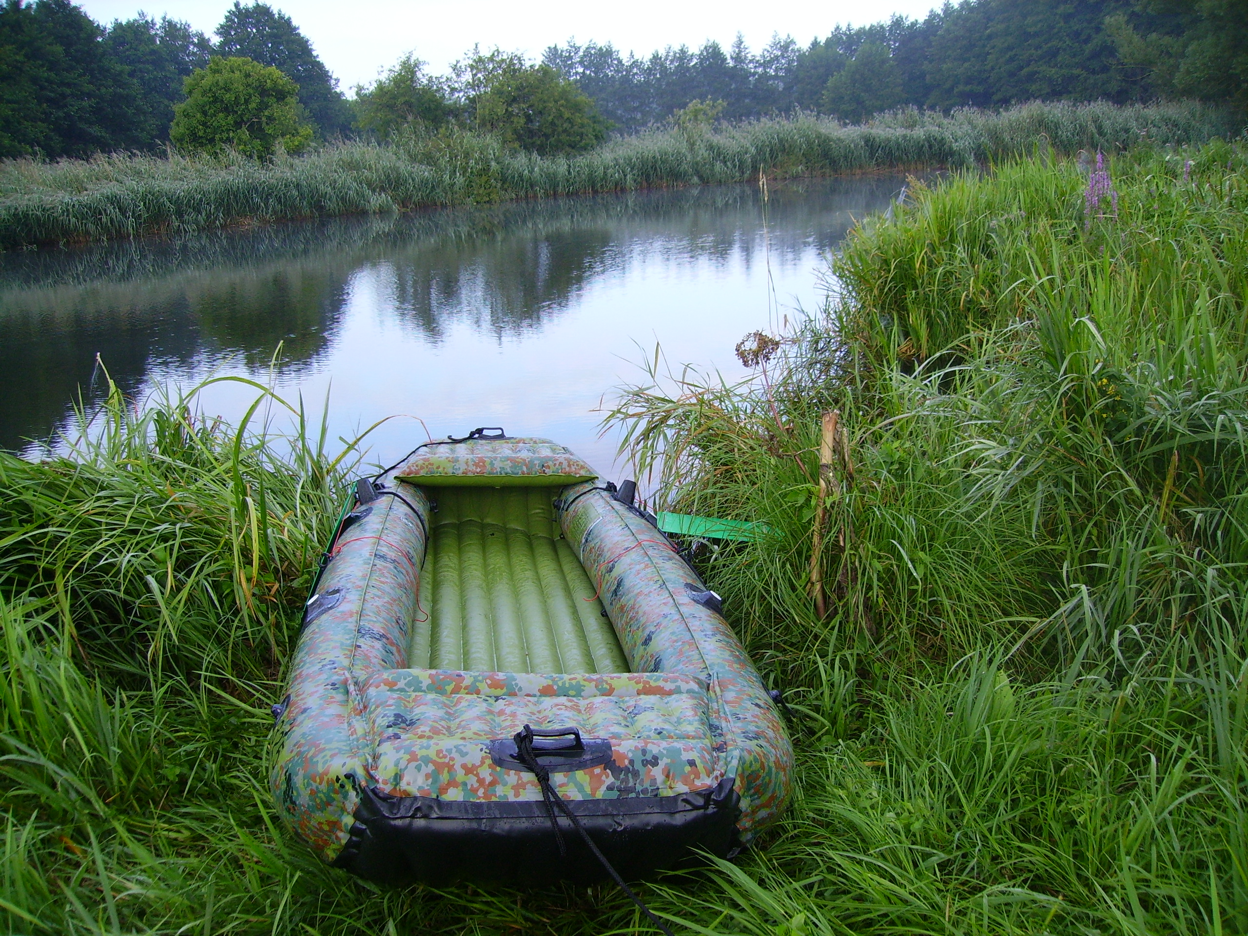 Dinghy on the banks of the Peene.